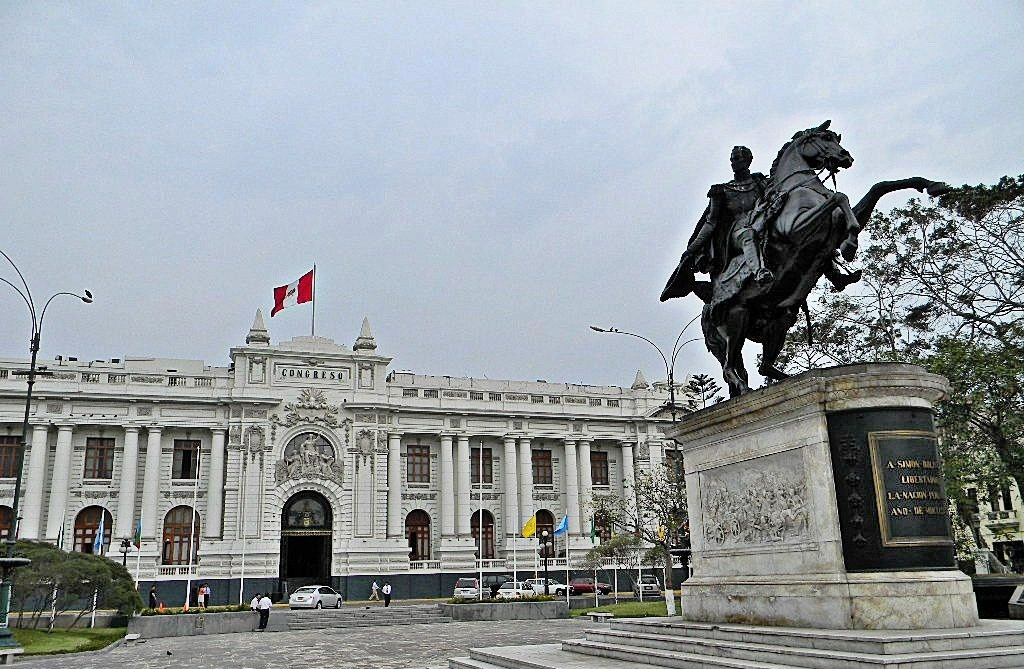 Congress of Lima, and Plaza Bolivar